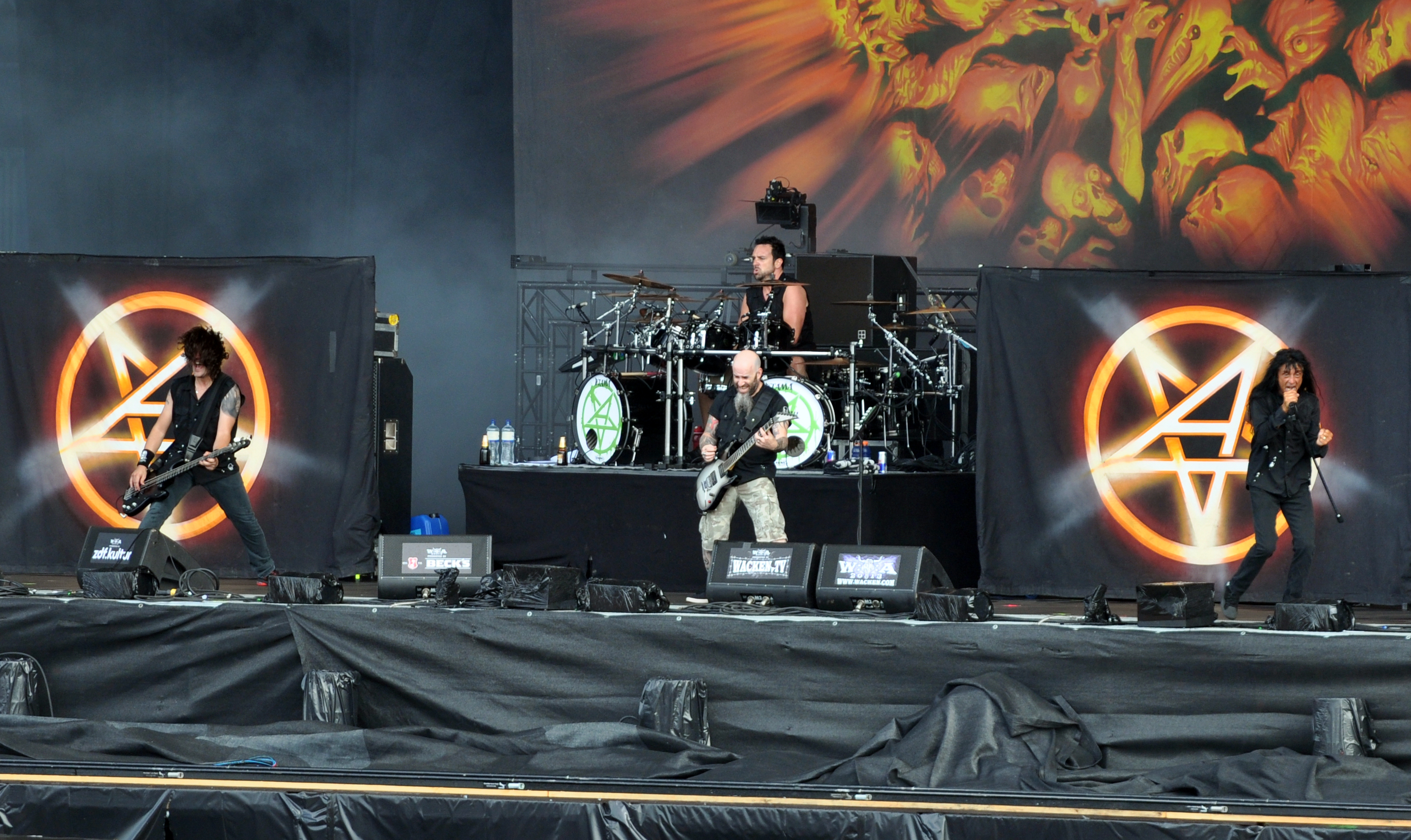 Anthrax at Wacken Open Air 2013